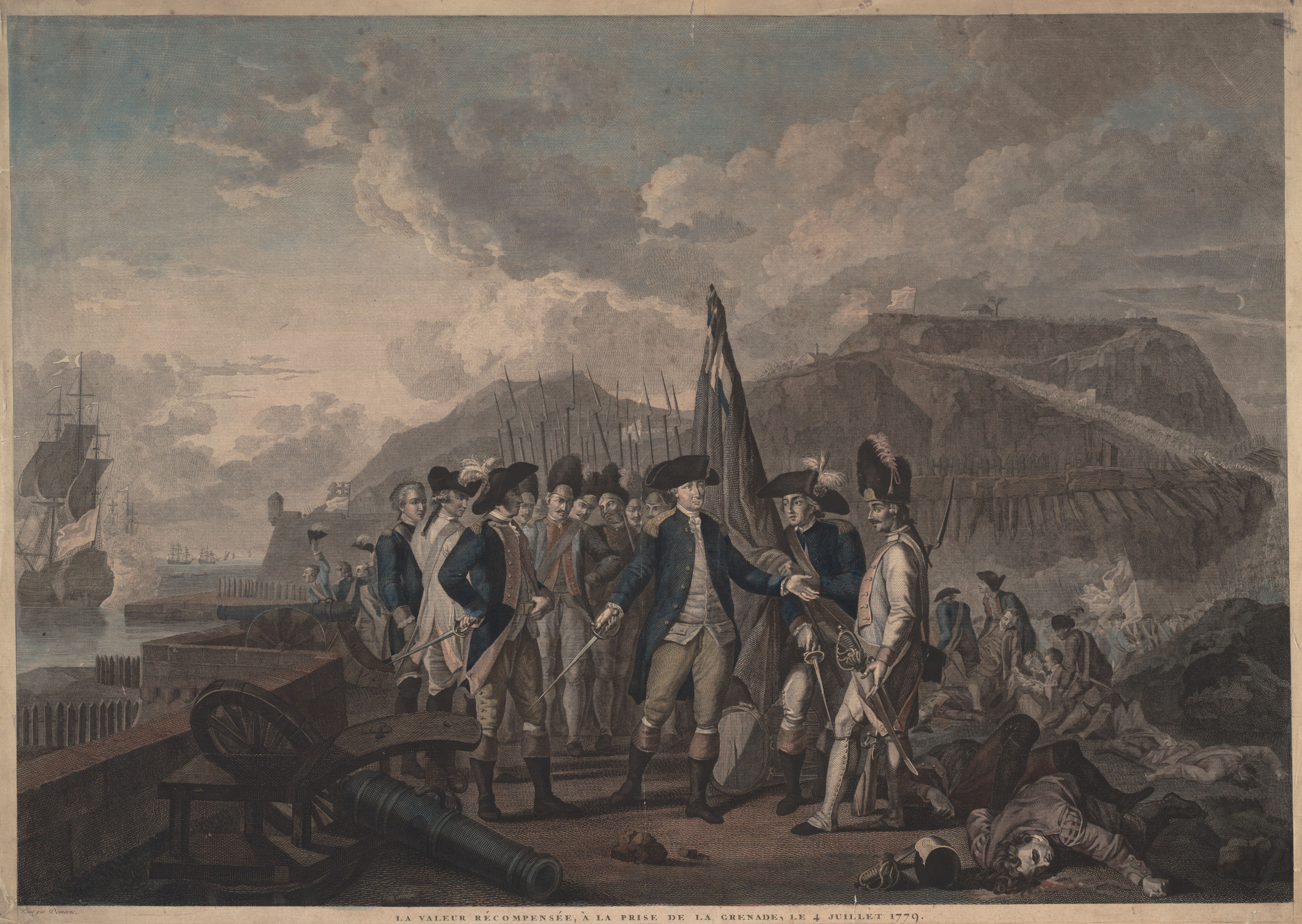 "The value rewarded with the attack of the Grenada, July 4th, 1779." The Count d' Estaing makes to officer the Hourador Brave man who has just saved the life of Mr. de Vence whereas it lowered the English flag.